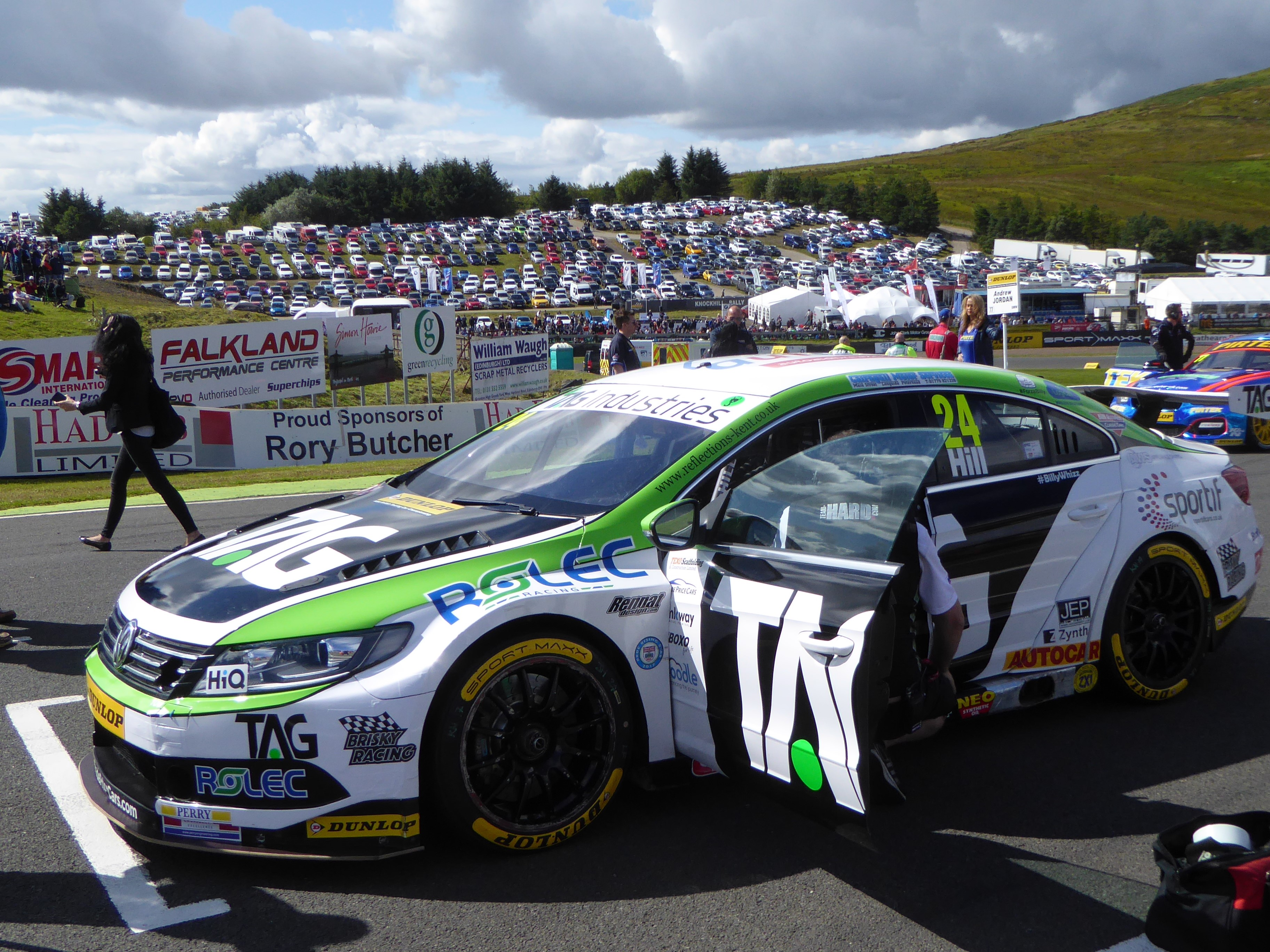 Jake Hill (TAG Racing), at the Knockhill round of the 2017 British Touring Car Championship.